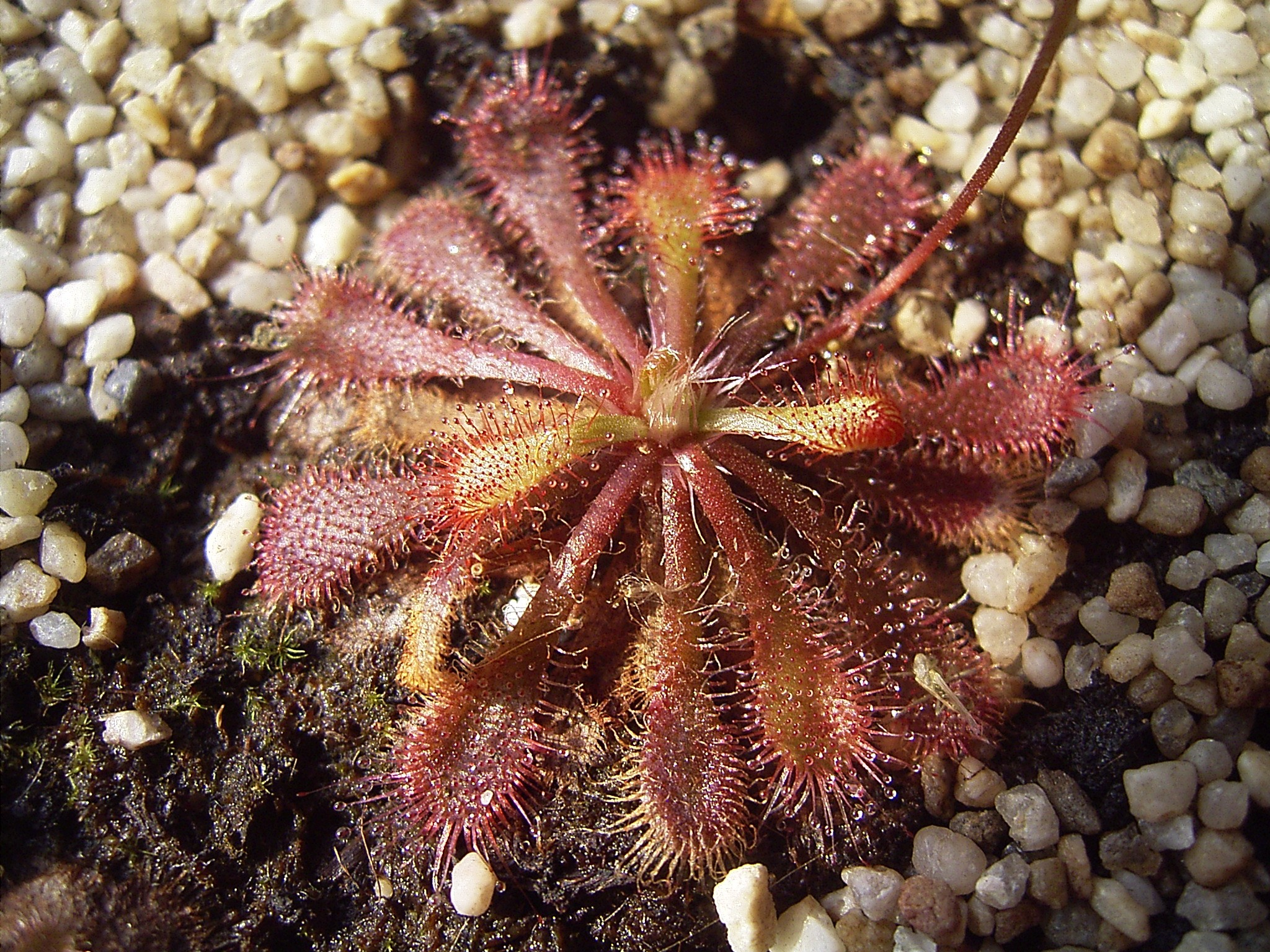 Drosera spatulata Author: Denis Barthel